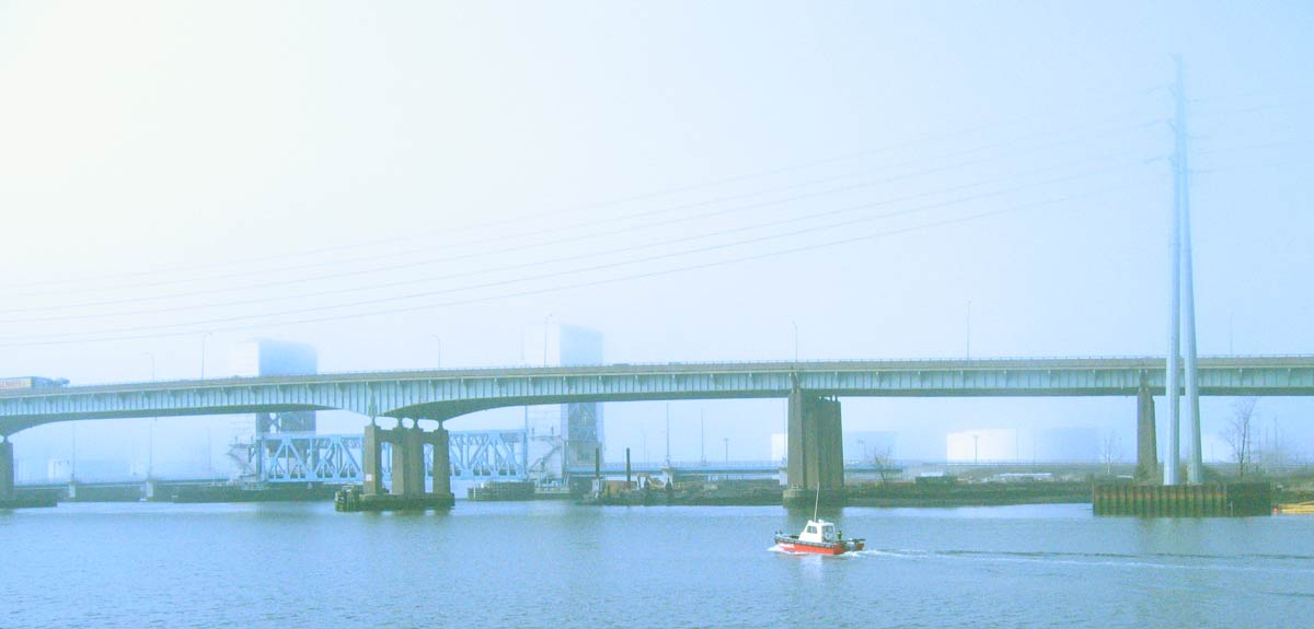 1958 Pearl Harbor Memorial Bridge (Q Bridge) over the Quinnipiac River in New Haven, Connecticut, with the Tomlinson Lift Bridge behind it.